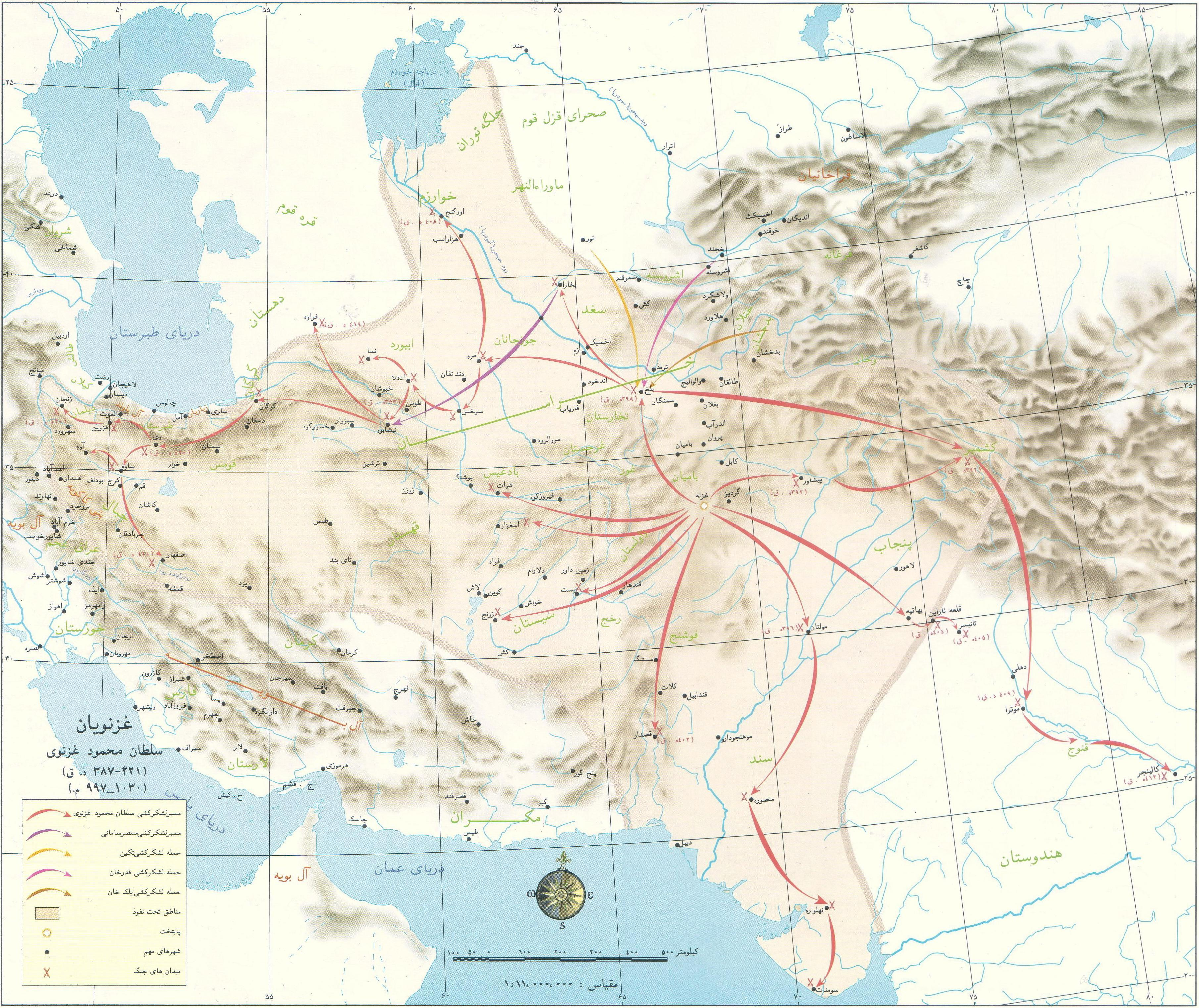 map of Iran during King Mahmoud Ghaznavi997-1030 AD